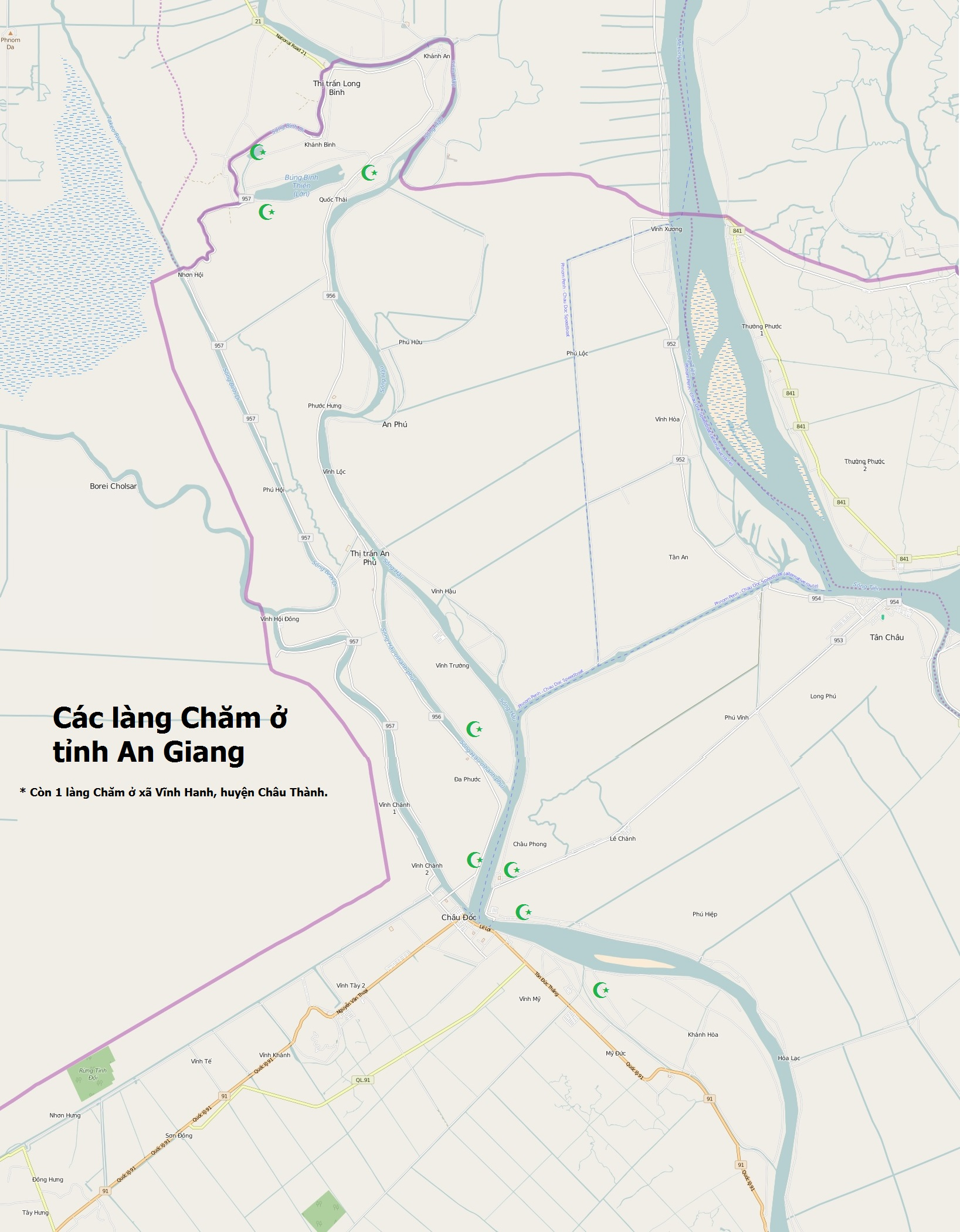 Chams villages in An Giang province (An Phú, Châu Phú, Châu Thành district, Tân Châu town). Các làng Chăm ở tỉnh An Giang (huyện An Phú, Châu Phú, Châu Thành, thị xã Tân Châu).